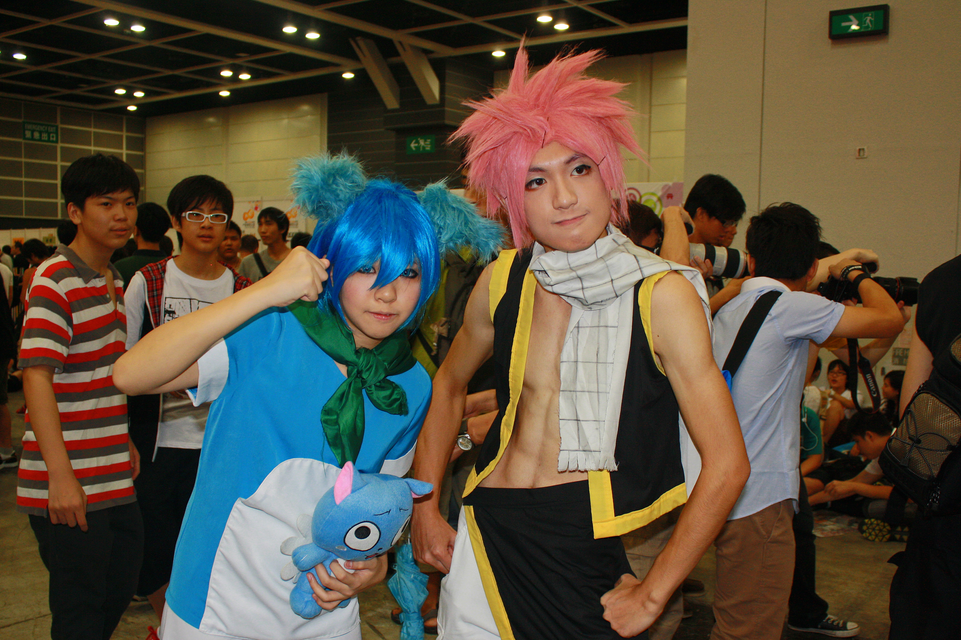 Natsu and Happy (Fairy Tail) cosplay